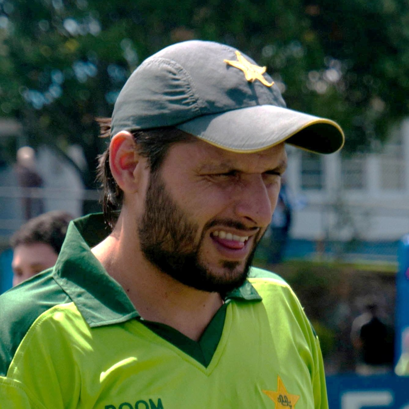 Shahid Afridi during Pakistan's tour of New Zealand in December 2010. Scorecard.